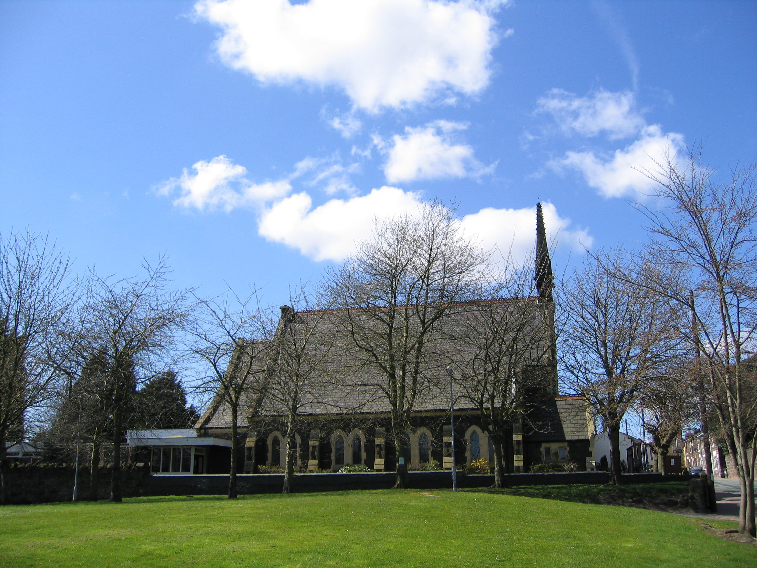 Trinity Methodist Church, Main Street, Halton, Cheshire, seen from the east. One of 12 chapels in the area built by Thomas Hazlehurst, and the only one still used for Methodist worship.